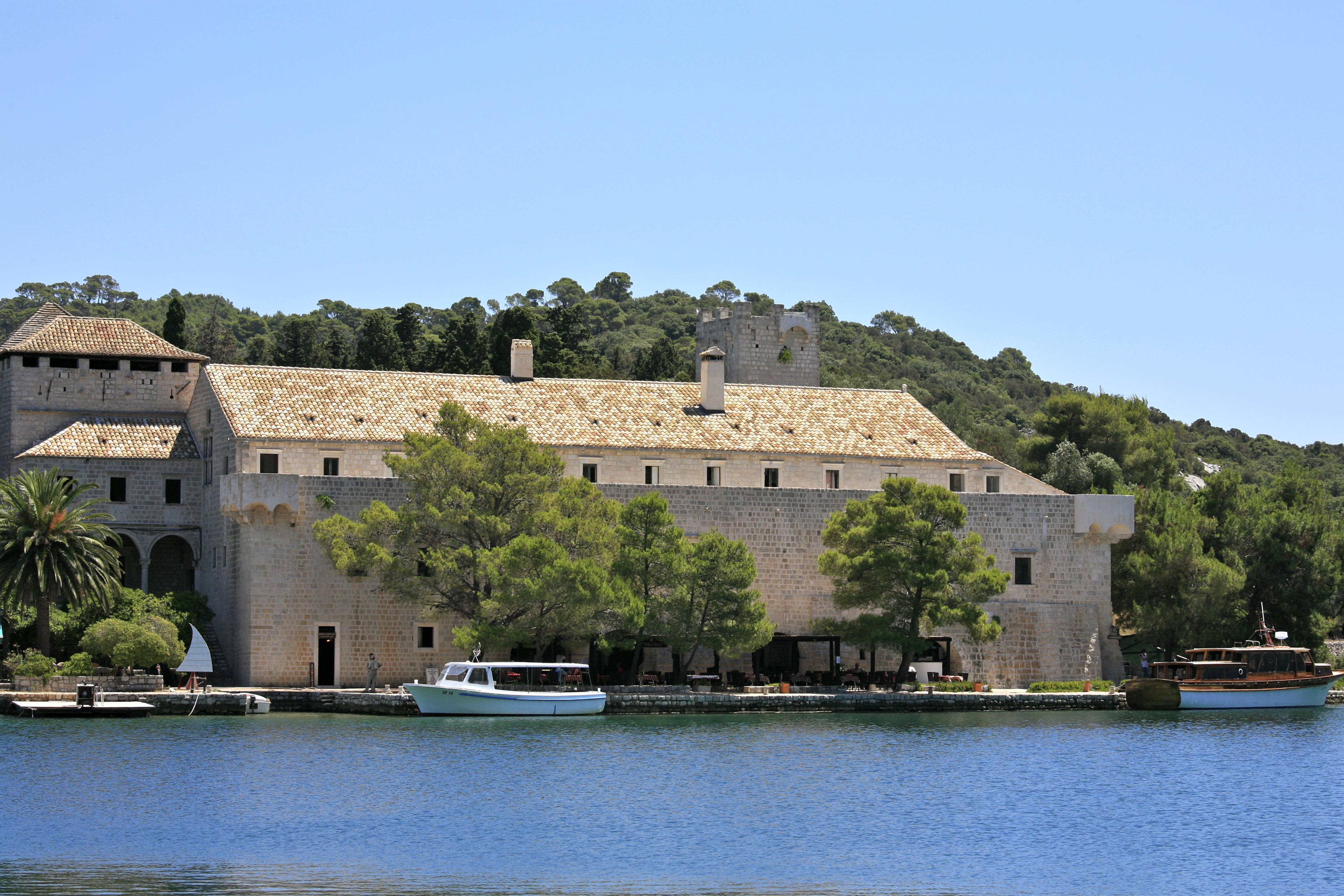 Monastery of Saint Mary, Mljet